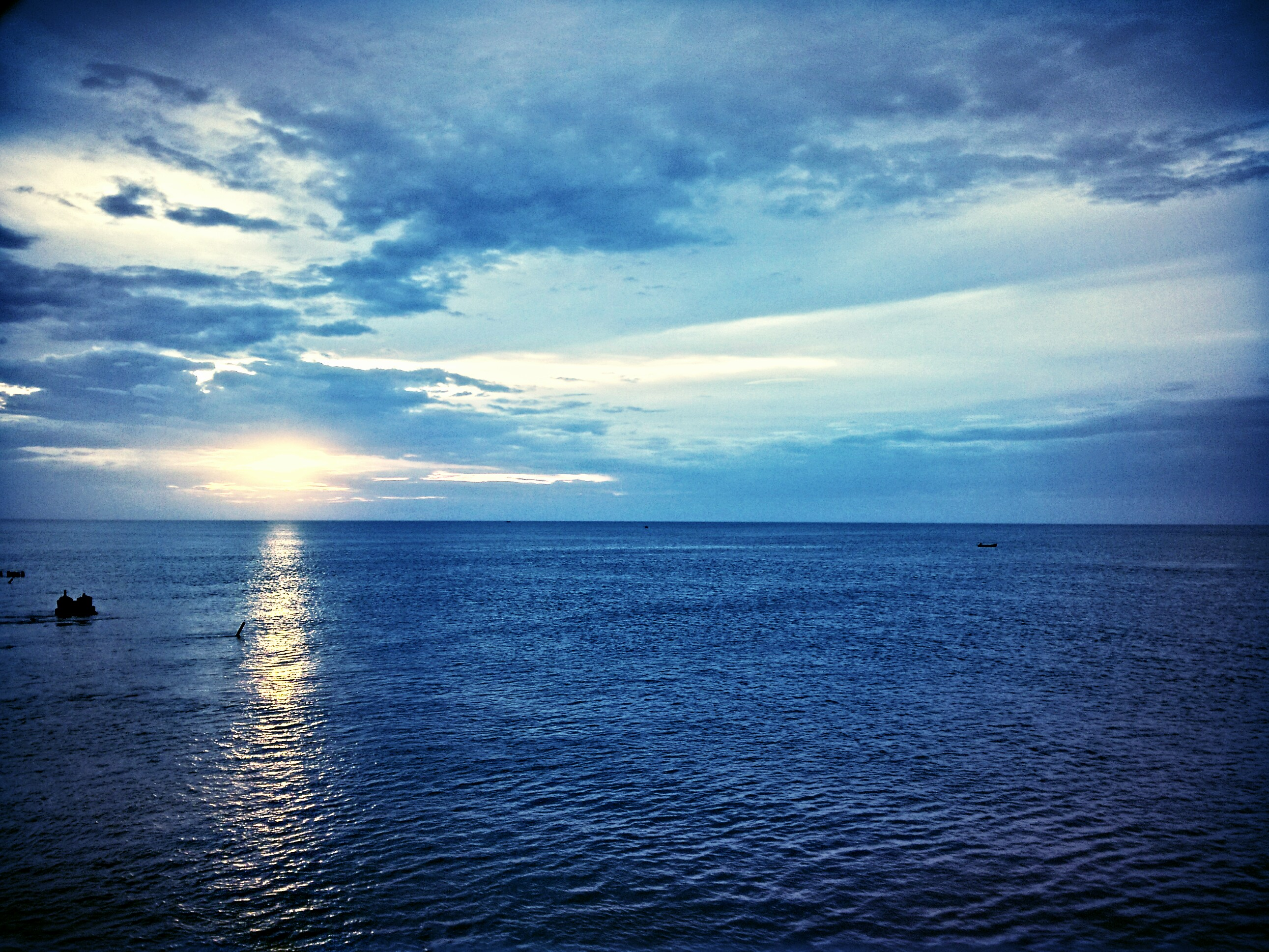 This beautiful scenery was shot in Rameshwaram at evening sunset.. The water looks blue from reflection of sky.. Pic shot from Pamban Bridje.